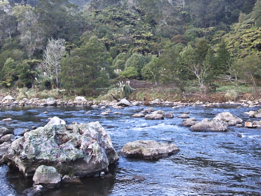 Karangahake gorge on the outskirts of Waihi, New Zealand.